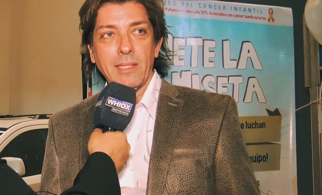 Last interview